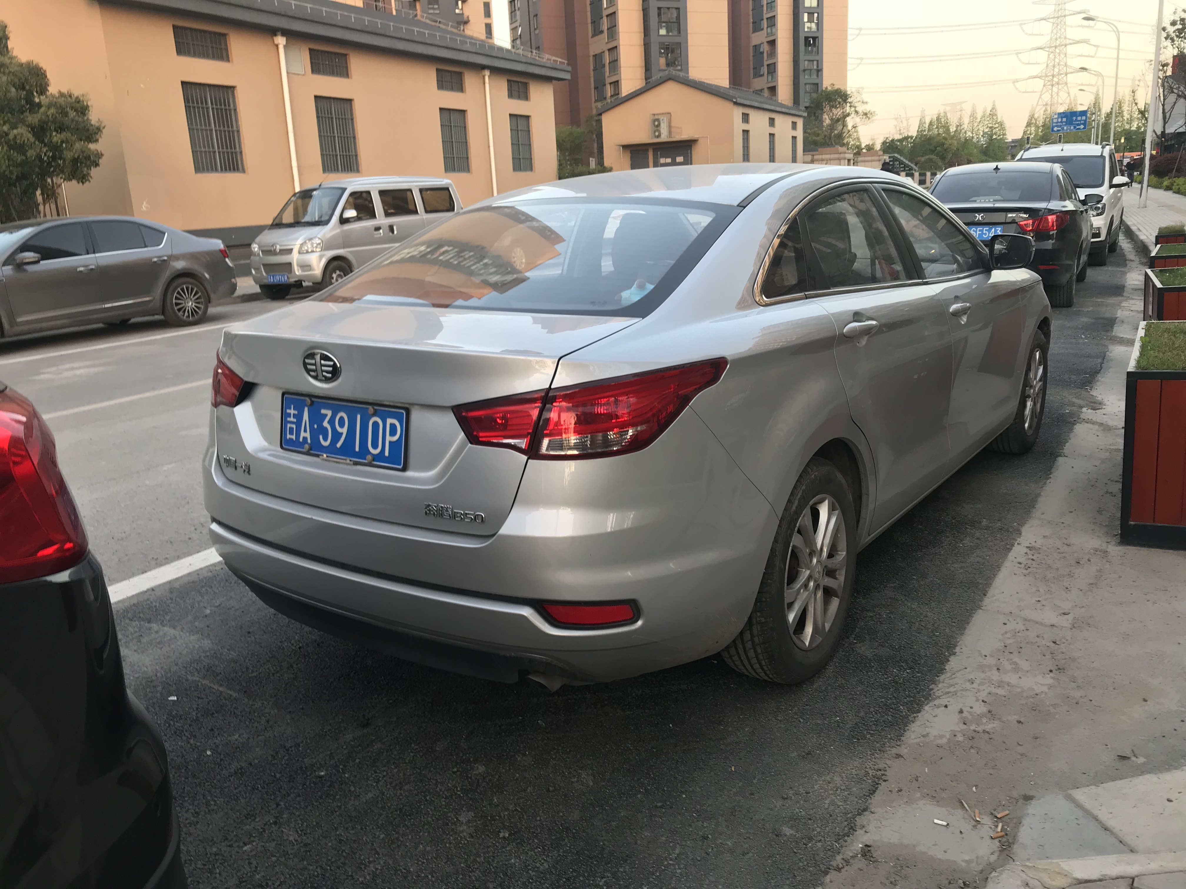 Besturn B50 II